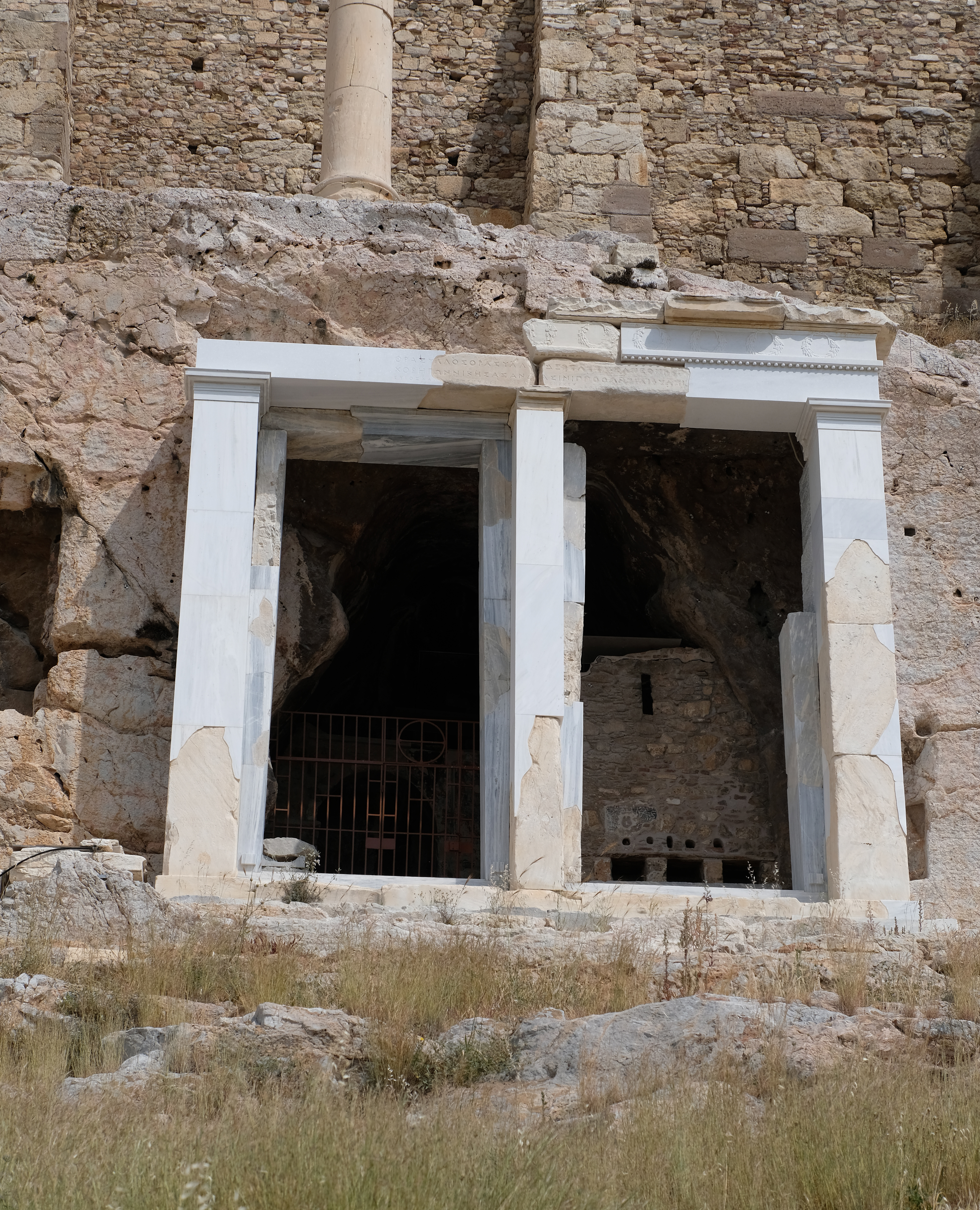 Choragic Monument of Thrasyllos